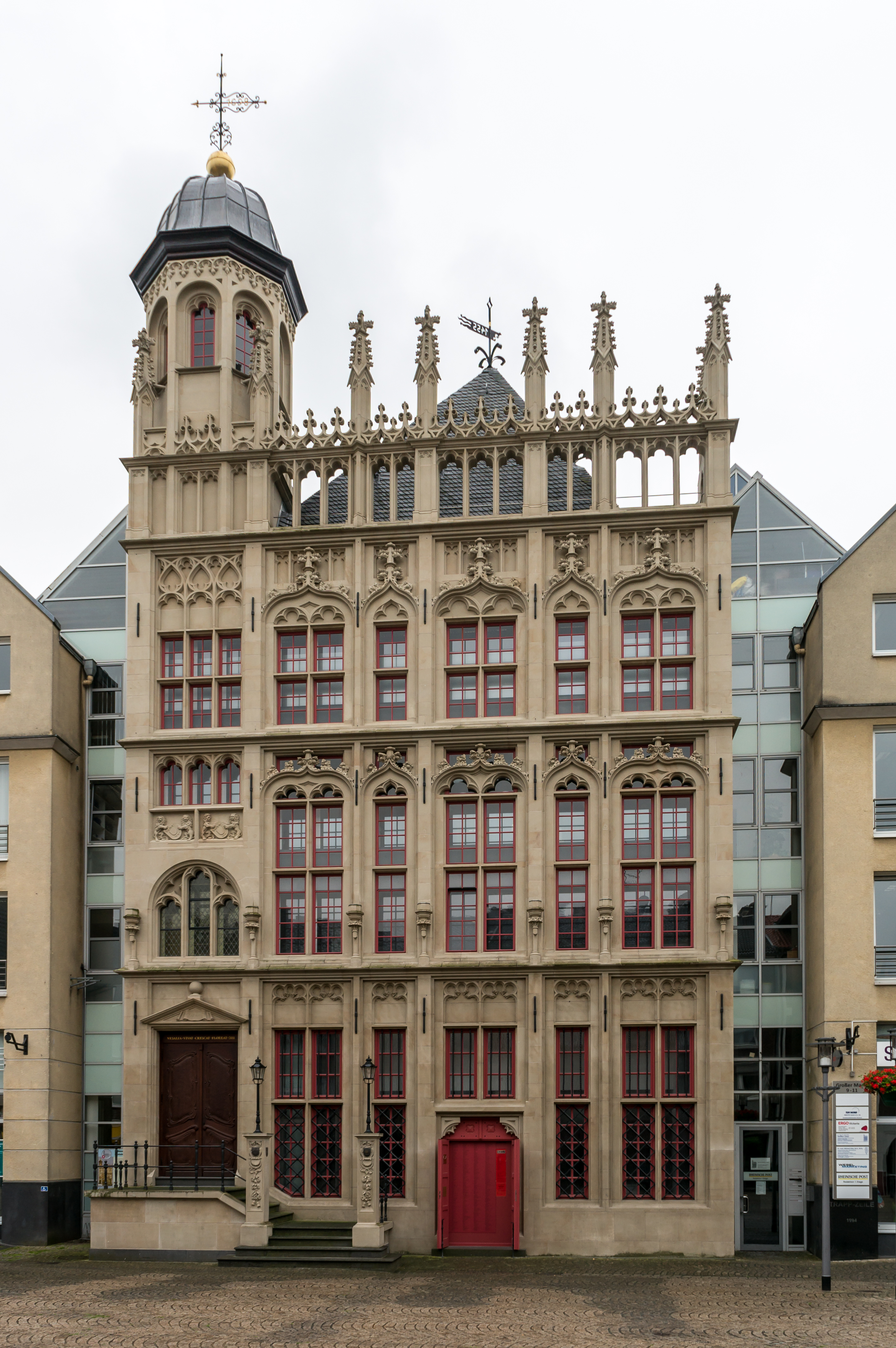 Old town hall, Wesel, North Rhine-Westphalia, Germany